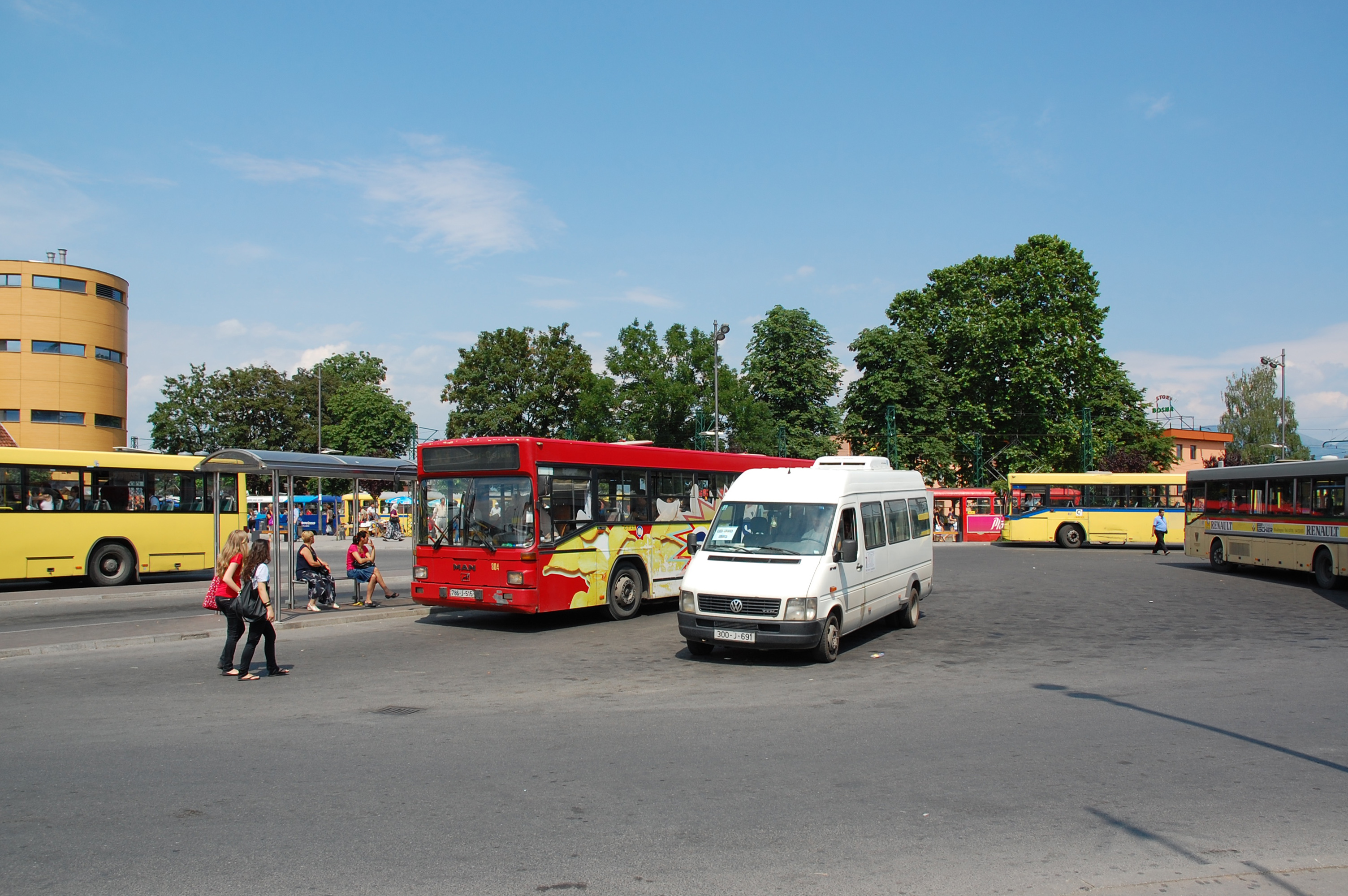 Ilidža bus terminus